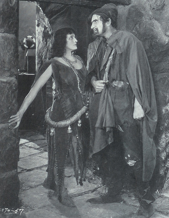 Eulalie Jensen and Ernest Torrence in The Hunchback of Notre Dame (1923) - publicity still